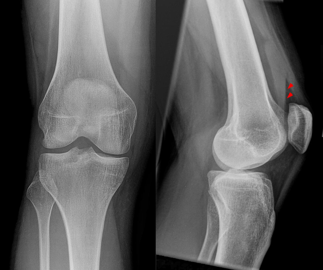 Occulte fracture of tibia. Indirect fracture-signs.